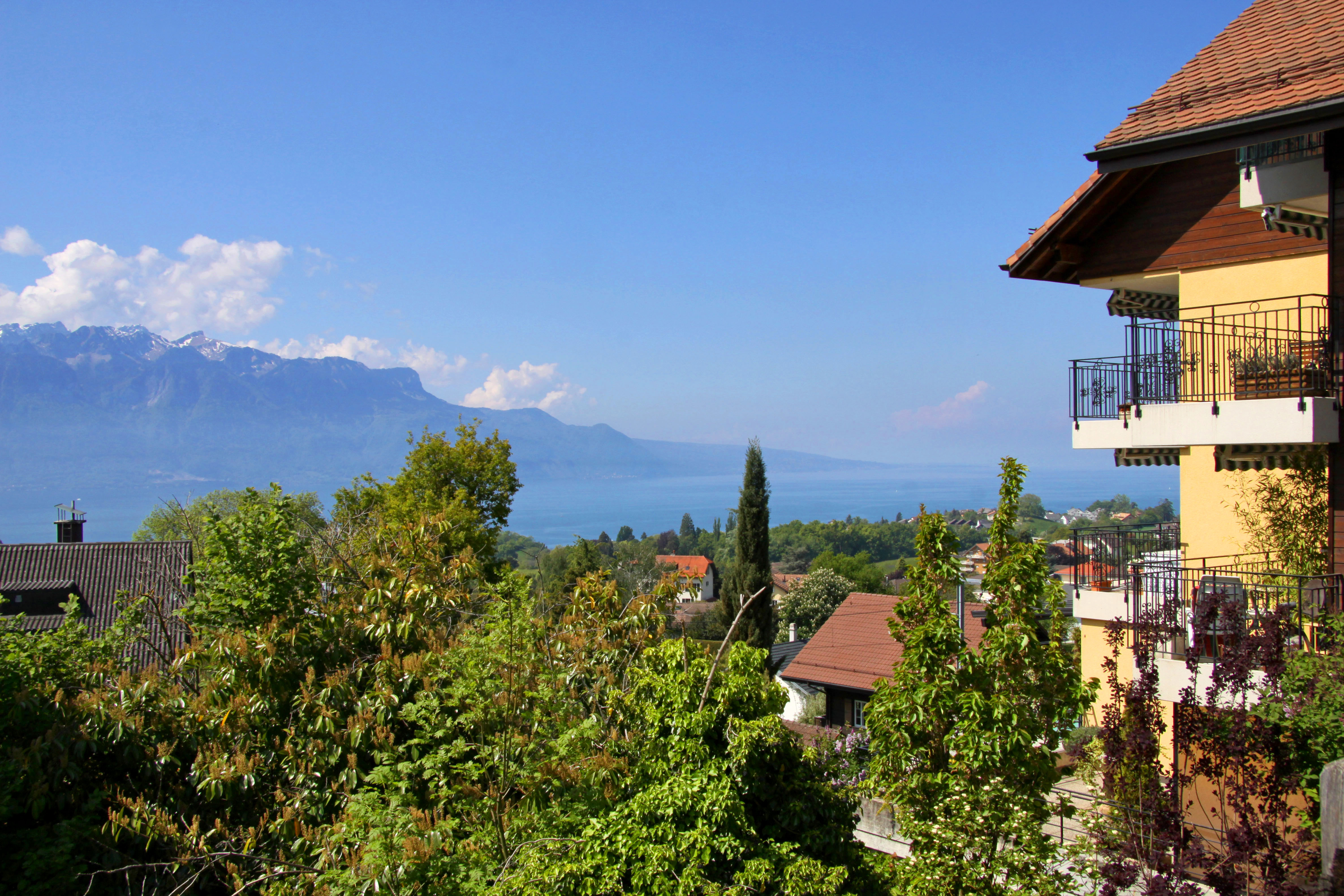 Saint-Légier in Saint-Légier-La Chiésaz, Vaud, Switzerland